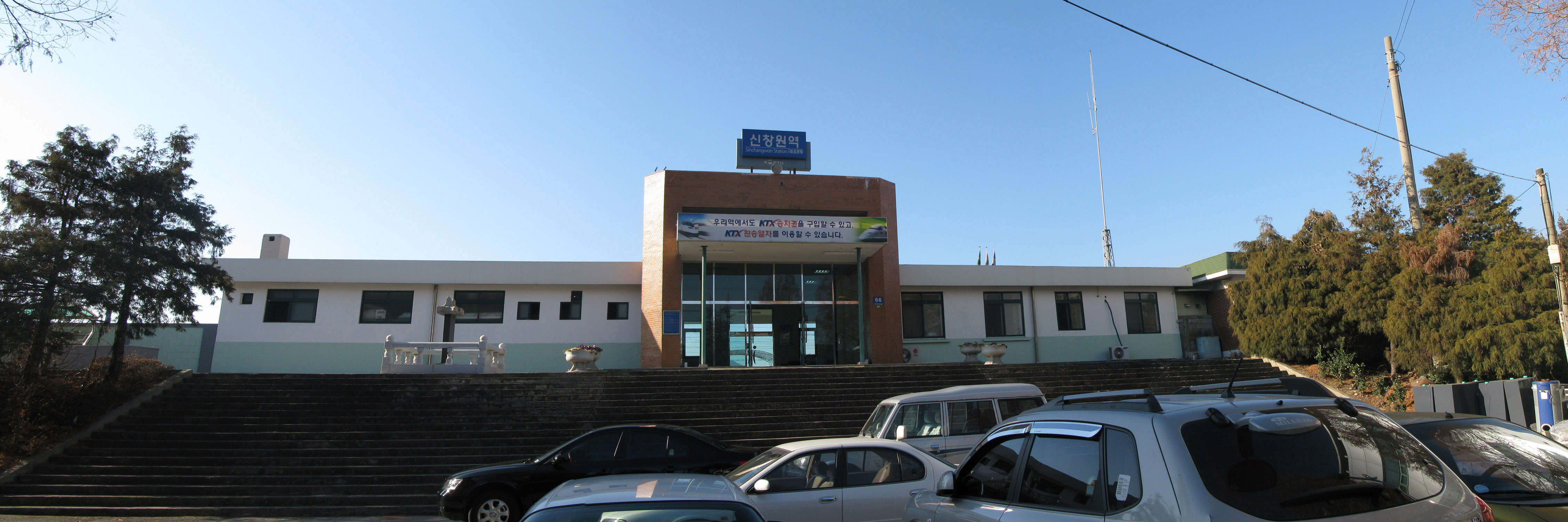 Jinhae Line Sinchangwon Station